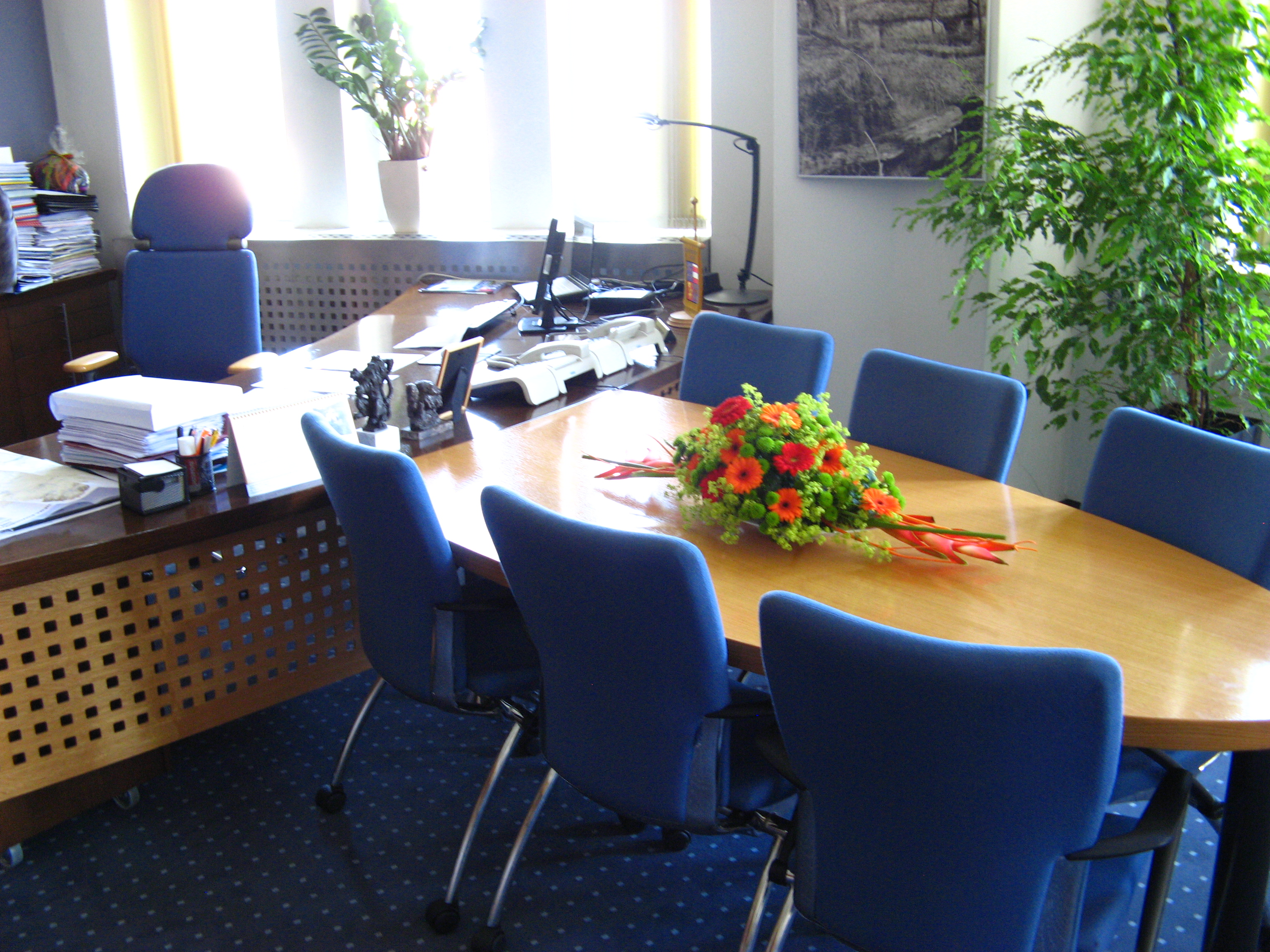 New regional palace, Zerotinovo square 3/5, Brno, Czech Republic. Regional governor's office.